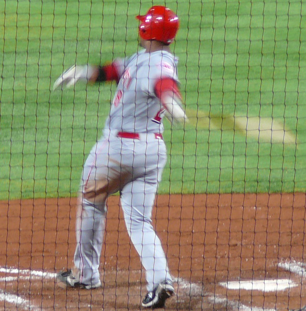 If used somewhere other than Wikipedia, Nelson, by name. 04:35, 20 September 2009 . . Chrisjnelson . . 600×610 (350 KB)